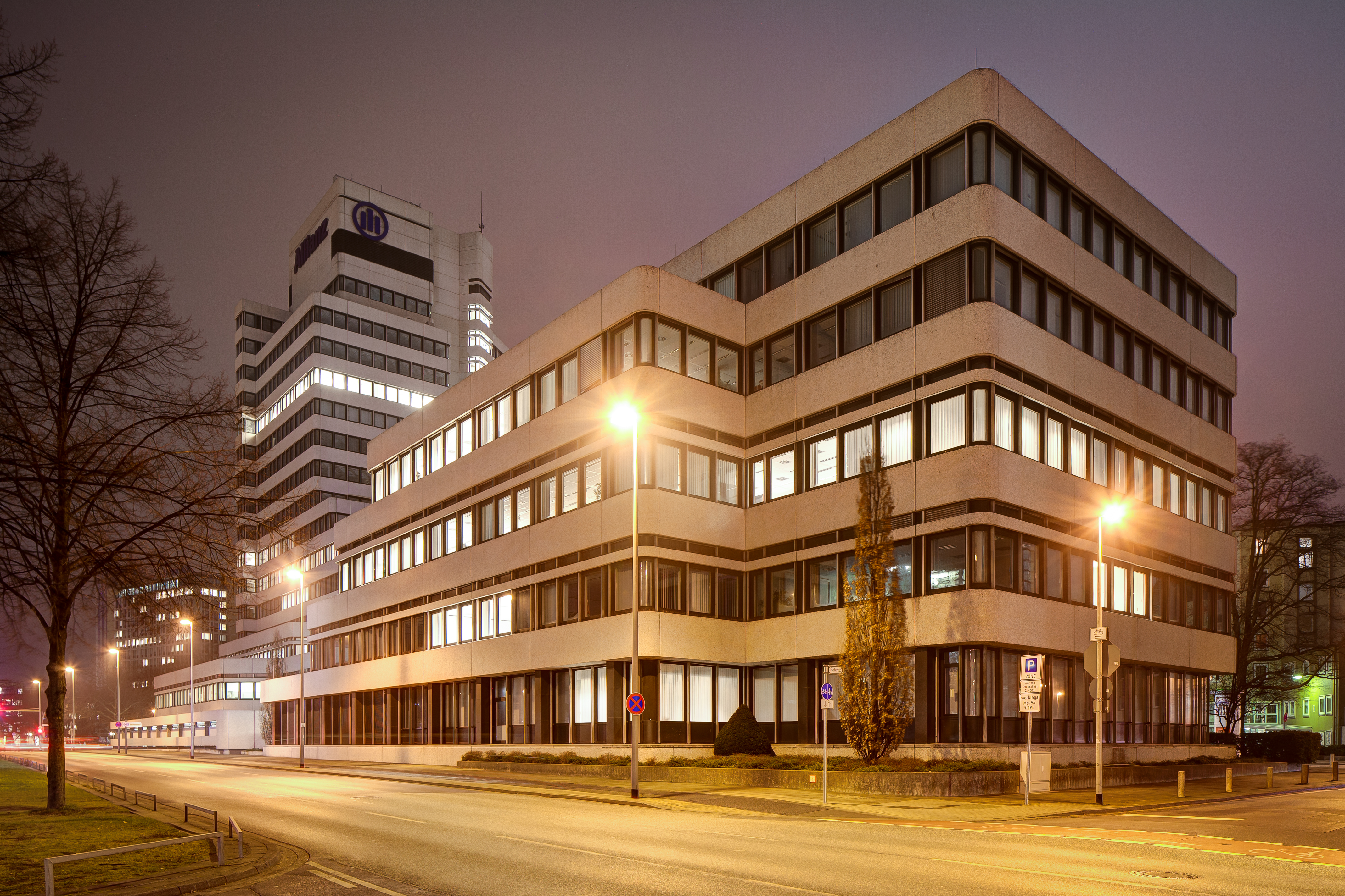 Office building of the Allianz insurance company, located at Brühlstraße road in Hanover, Germany.